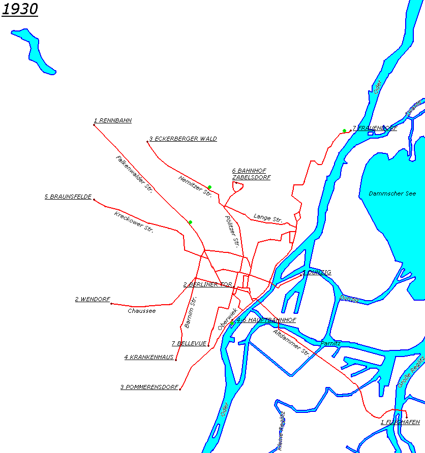 Szczecin Tram Plan in 1930